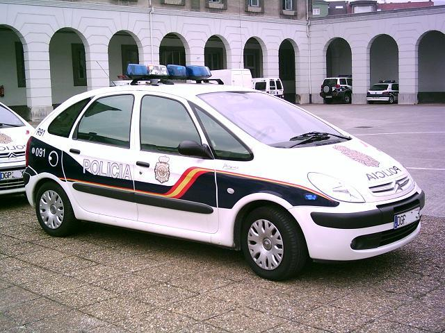 Citroen Xsara police car in Spain, with "POLICIA" in mirror writing ("AICILOP").